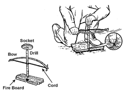 Bow and drill.